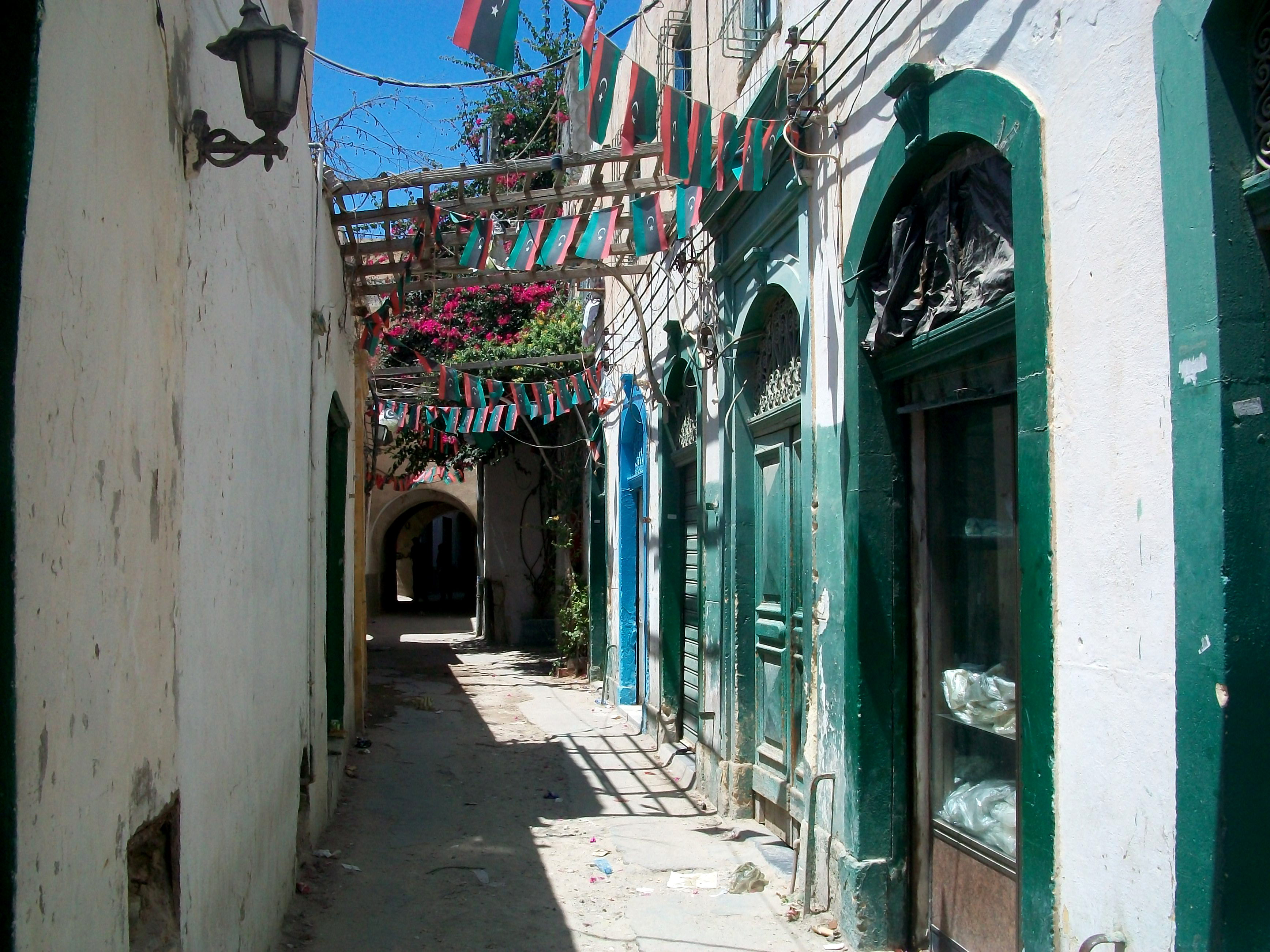 Zangat El Fnaydga (Fnaydga Alley) in the medina of Libya's capital Tripoli.